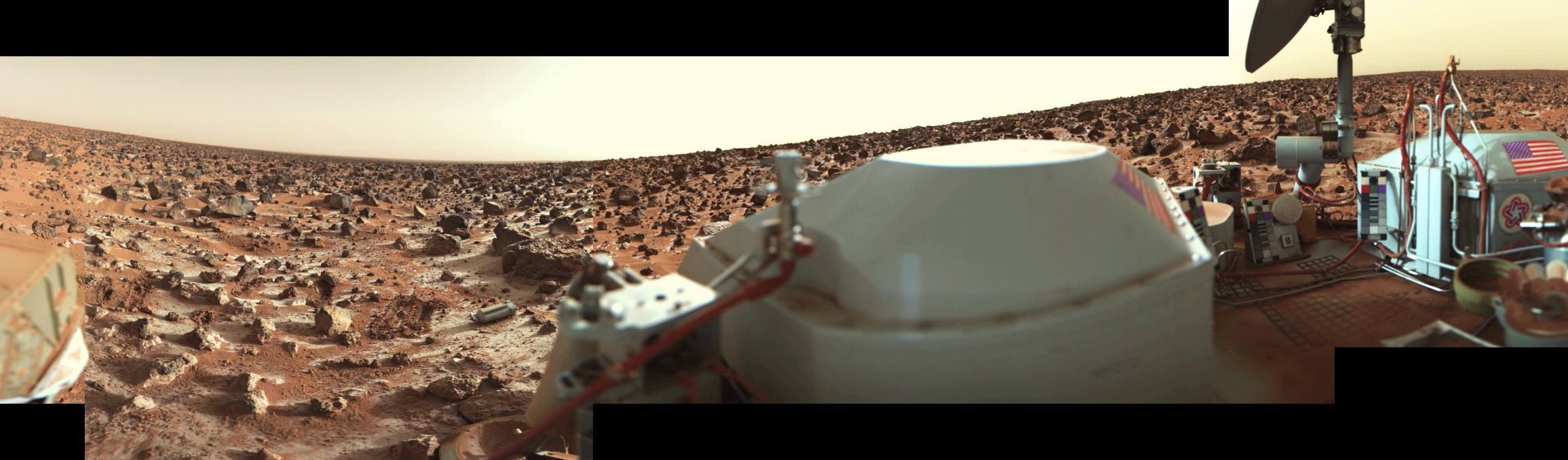 Viking Lander 2 Camera 2 FROST (Low Resolution Color) Sol 1028, 1030 and 1050 between 11:34 and 12:40